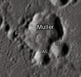 Muller lunar crater as seen from Earth with satellite craters labeled